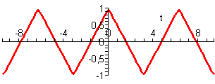 Fourier approximation of a triangle wave: good approximation with 6 terms.